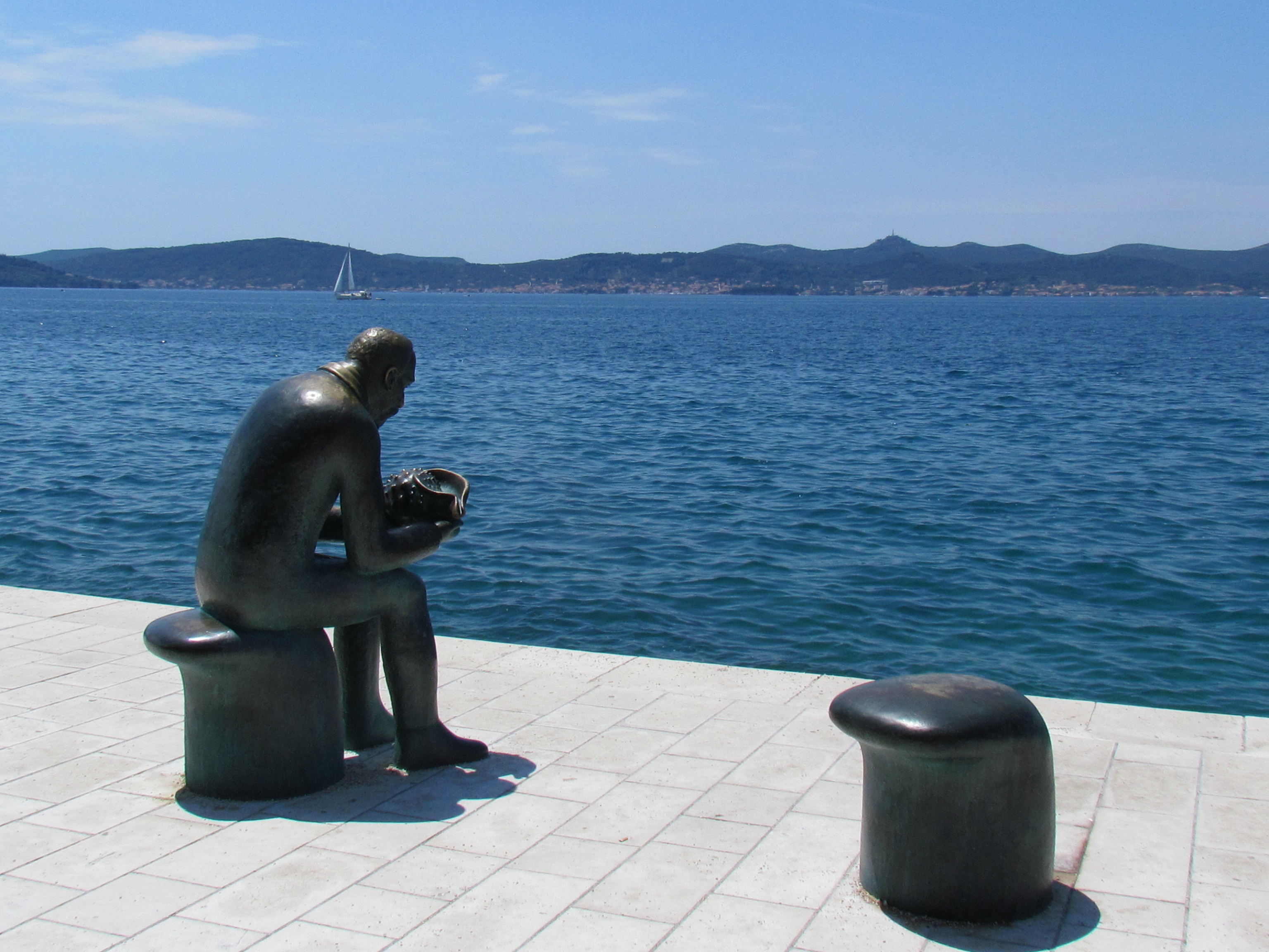 Statue of Špiro Brusina in front of the University of Zadar (photo from Flickr)